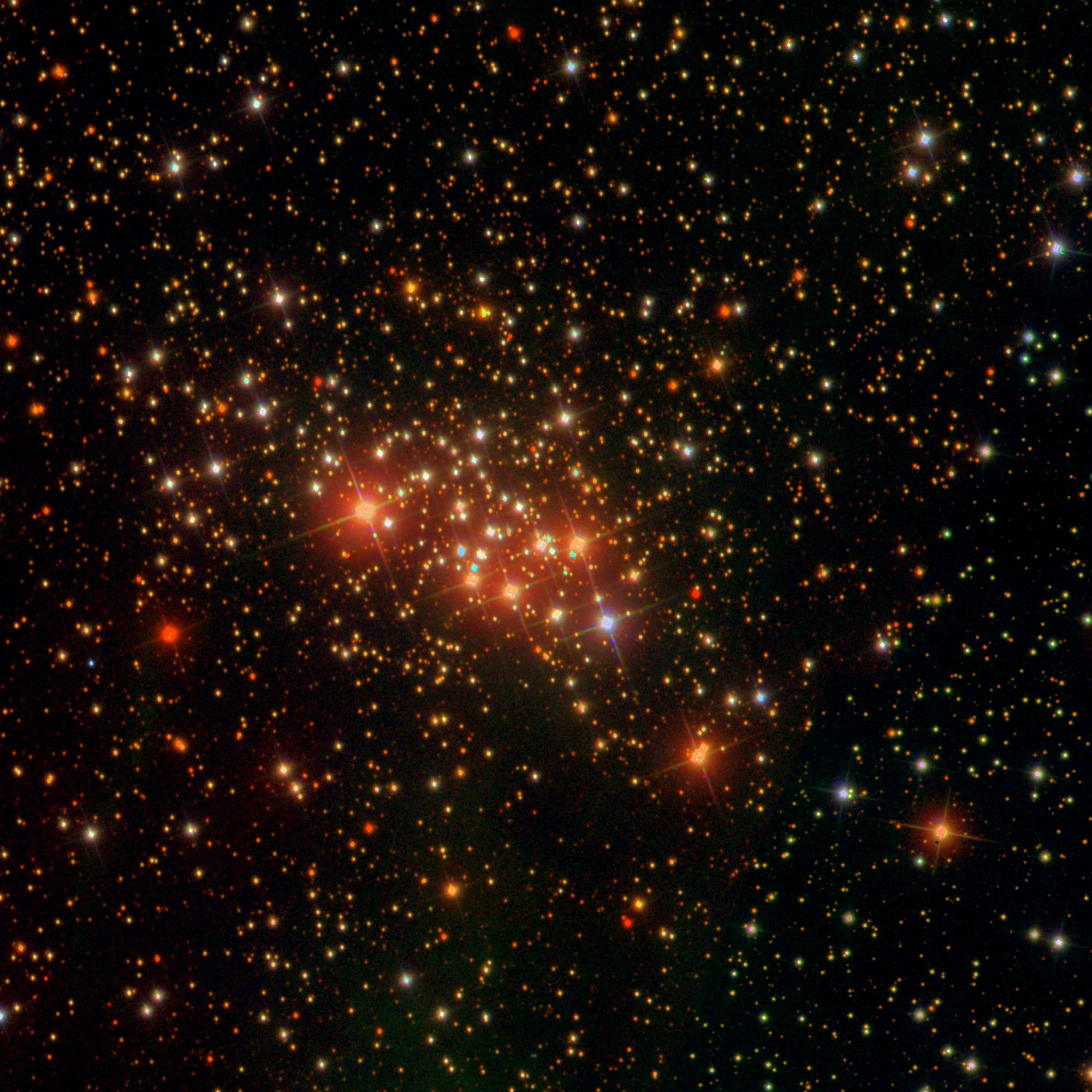 Angle of view: 11' × 11' (0.33" per pixel), north is up.